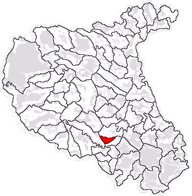 Limits of commune within Vrancea County